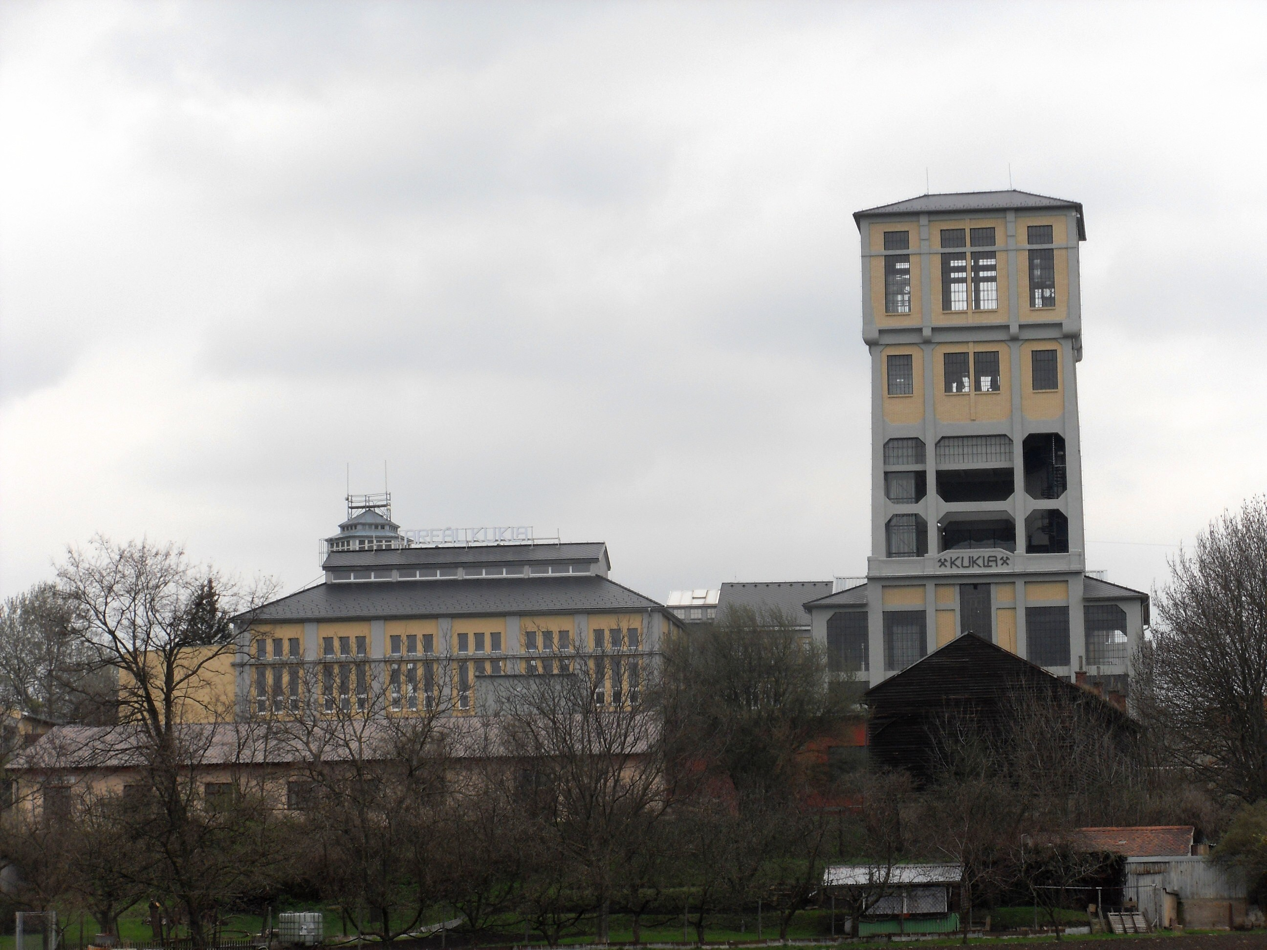 Former Kukla coal mine, Oslavany, Brno-venkov District, Czech Republic